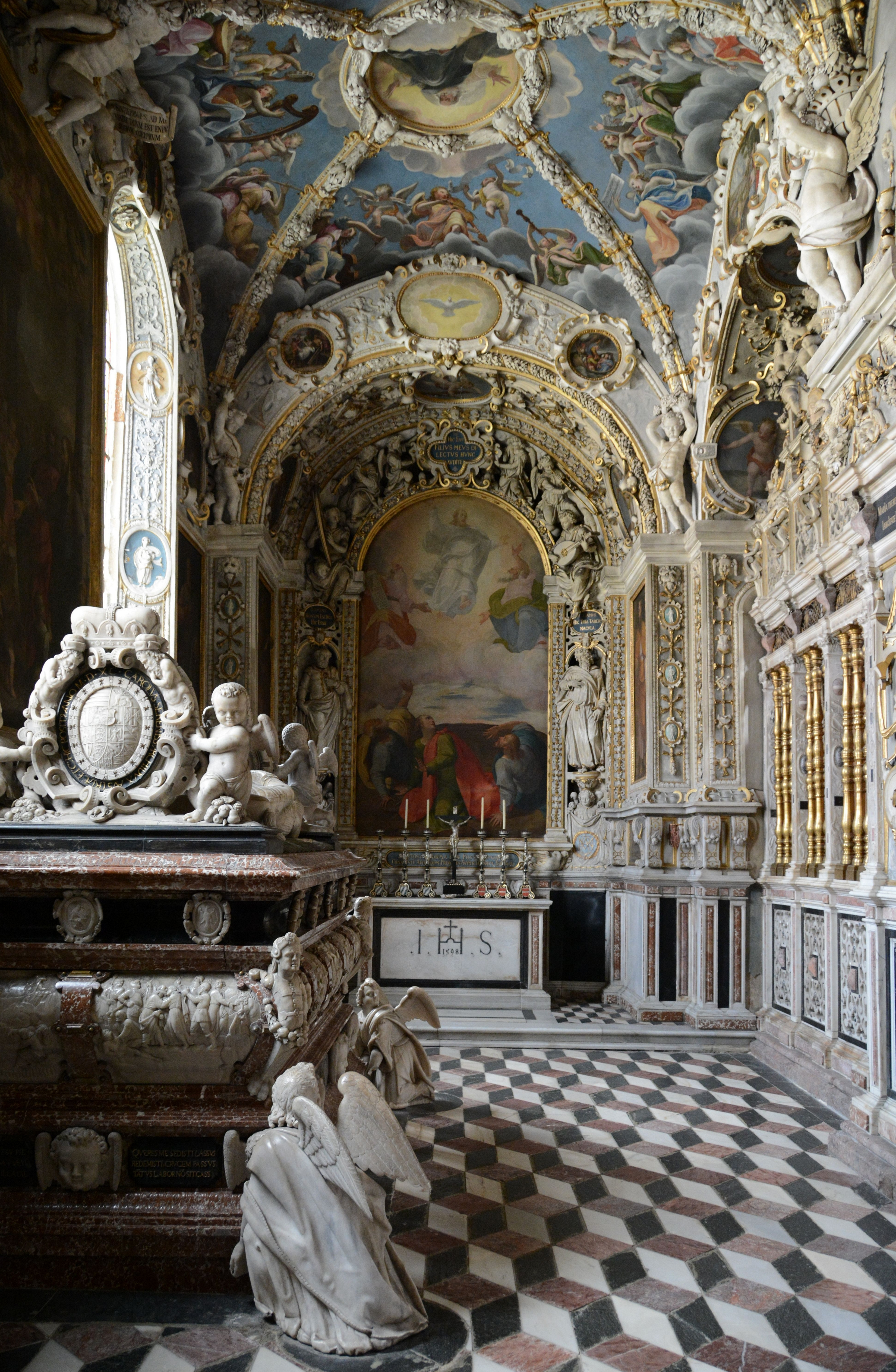 Seckau basilica, mausoleum, view to altar, cenotaph on the left